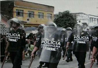 Federal Police of Brazil